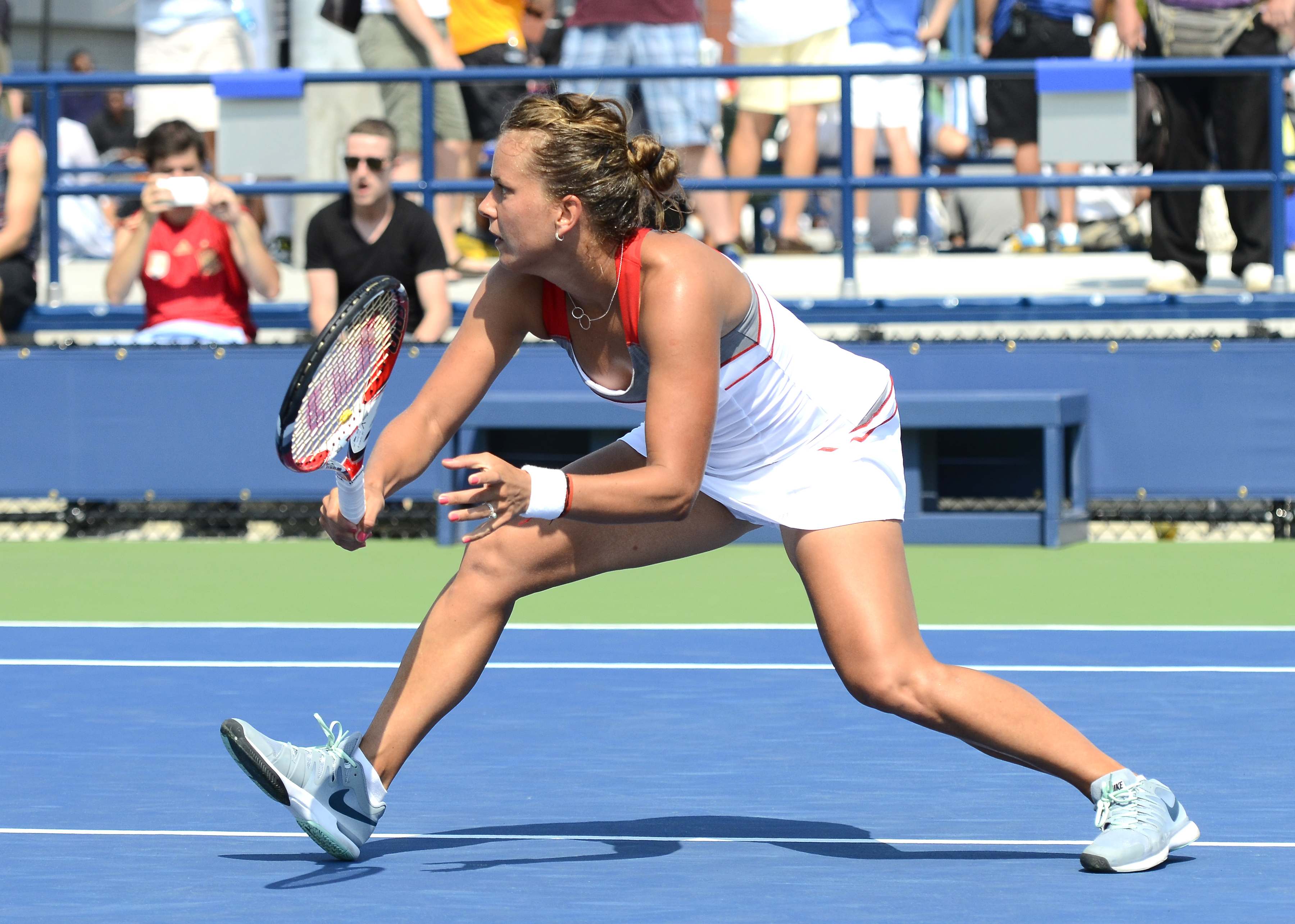 August 26, 2014 Queens, NY Barbora Zahlavova Strycova (CZE) def. Ashleigh Barty (AUS) (I only got to see a small portion of this match, right as it was ending.)